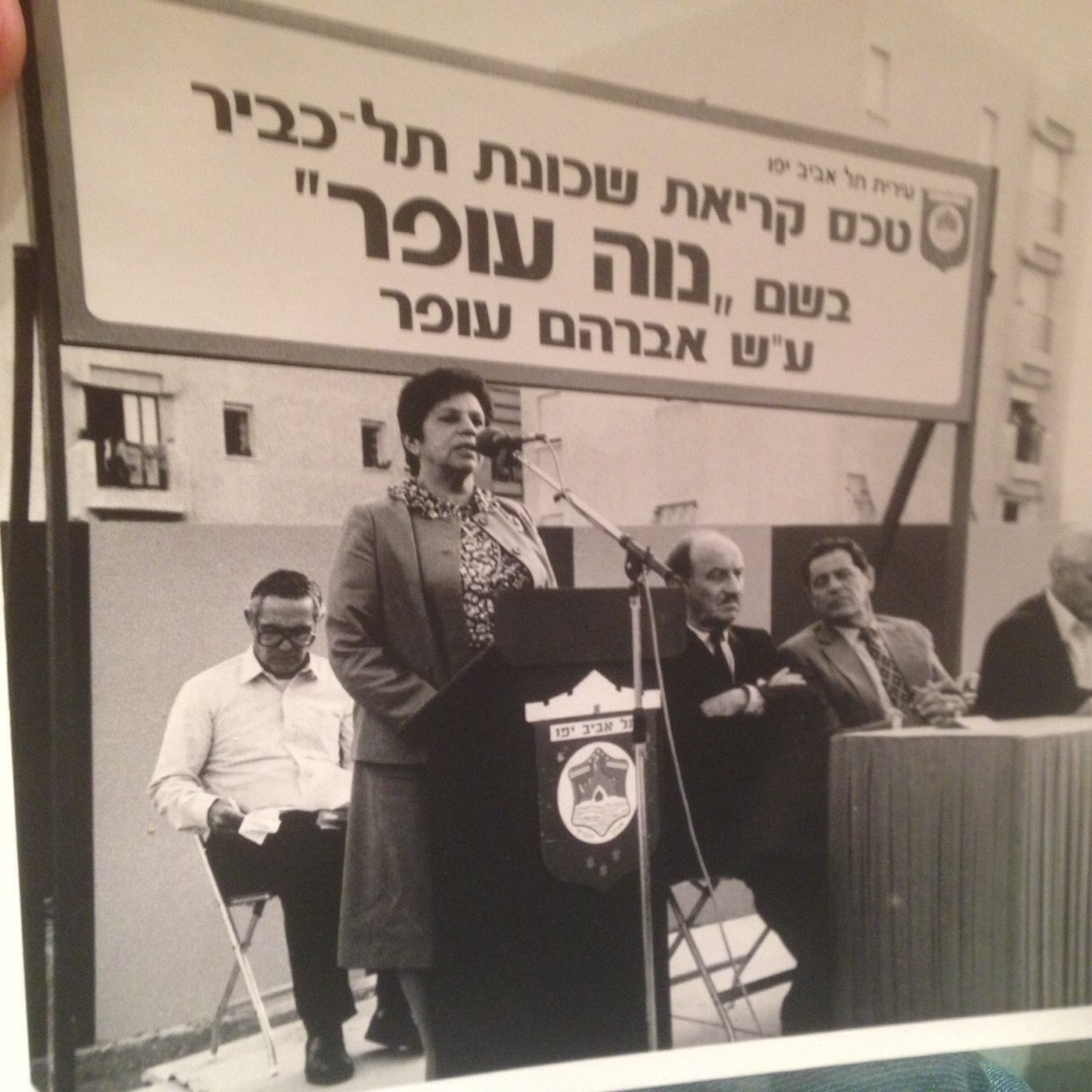 טקס החלפת שם שכונת נווה עופר